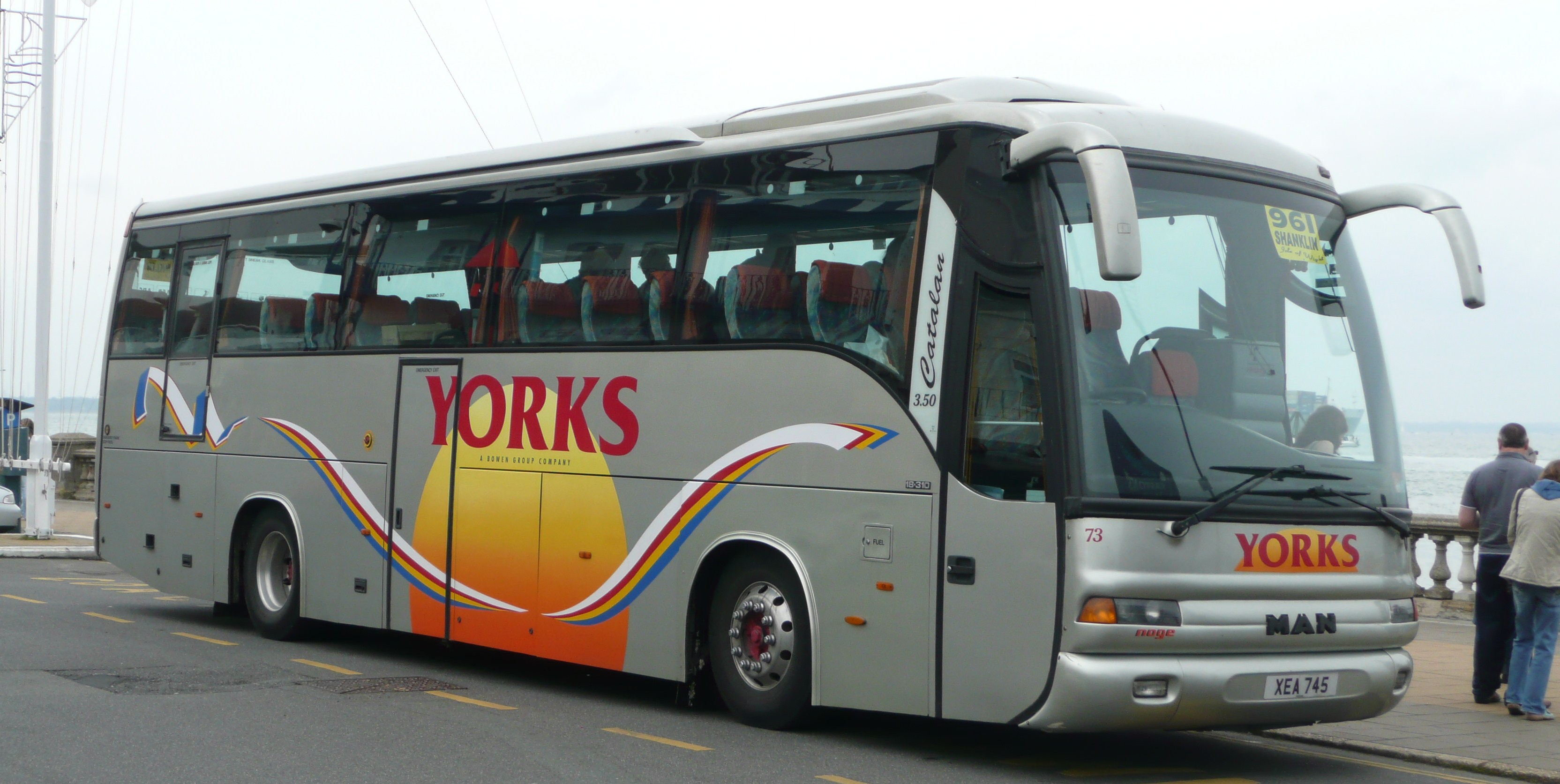 Yorks Travel's 73 (XEA 745, originally R638 VNN), a MAN 18.310/Noge Catalan, parked on Cowes Parade, Isle of Wight.